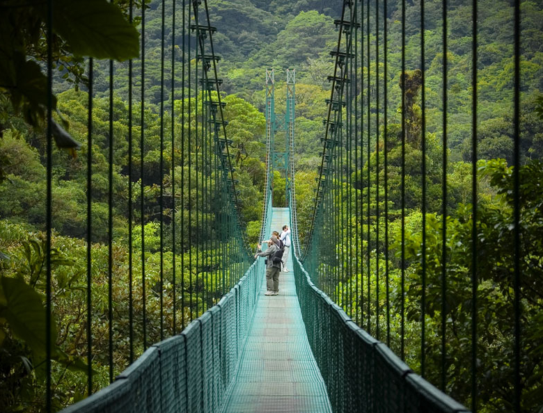 One of many bridges spanning across gorges in the rain forests of Monte Verde.